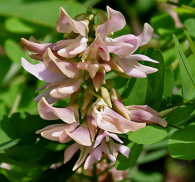 Abrus precatorius - Crab Eyed Creeper, Jequirity, gunj, 'John Crow' Bead, Precatory bean, Indian Licorice or Saga Tree, Coral bead vine, Rosary pea • Hindi: रत्ती Ratti, गुंची Gunchi • Sanskrit: गुंजा Gunjaa • Kannada: गुलगुंजी Gulugunji • Bengali: गुंच Gunch • Gujarati: Chanothi • Tamil: குந்து மணி kundu mani • Marathi: गुंज Gunja- in Hyderabad, India.